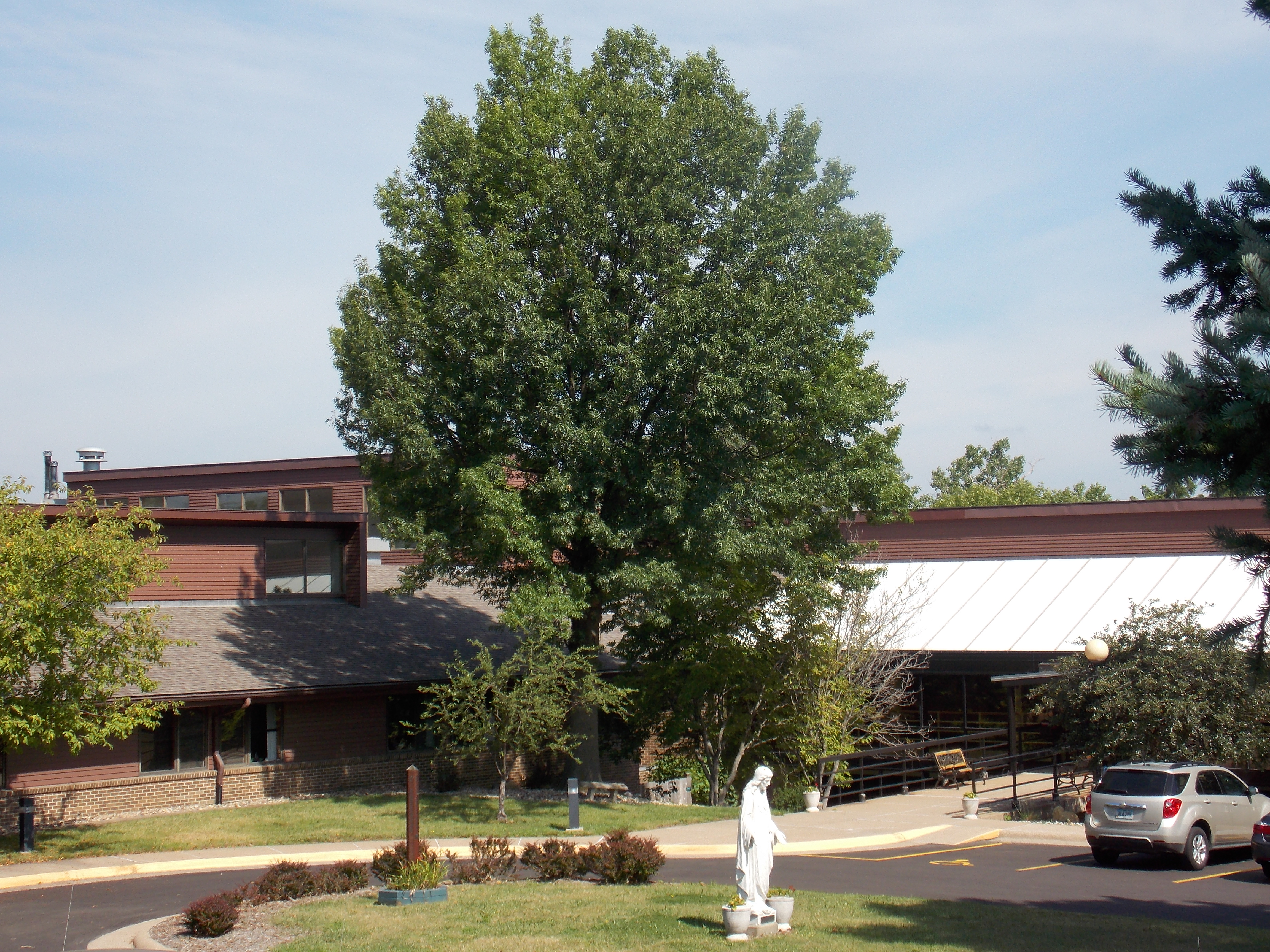 The Humility of Mary Center in Davenport, Iowa is the headquarters and convent for the Congregation of the Humility of Mary, a Catholic religious order of women.